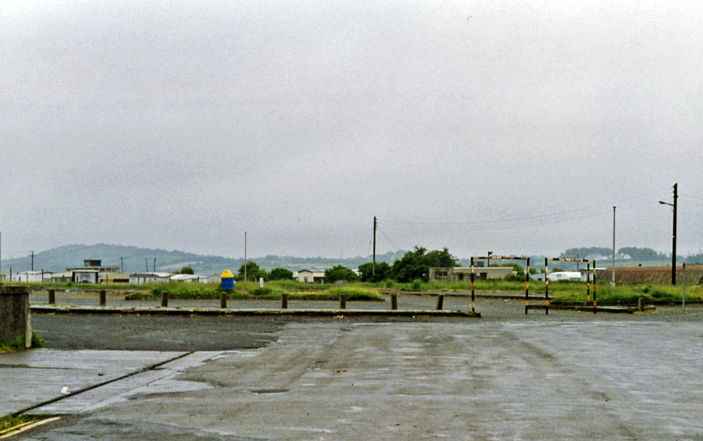 Bundoran Station (site). View eastward, towards Ballyshannon and Bundoran Junction; ex-Great Northern (Ireland) terminus of branch from Bundoran Junction, closed 1/10/57. Nothing but a (potential) car-park.